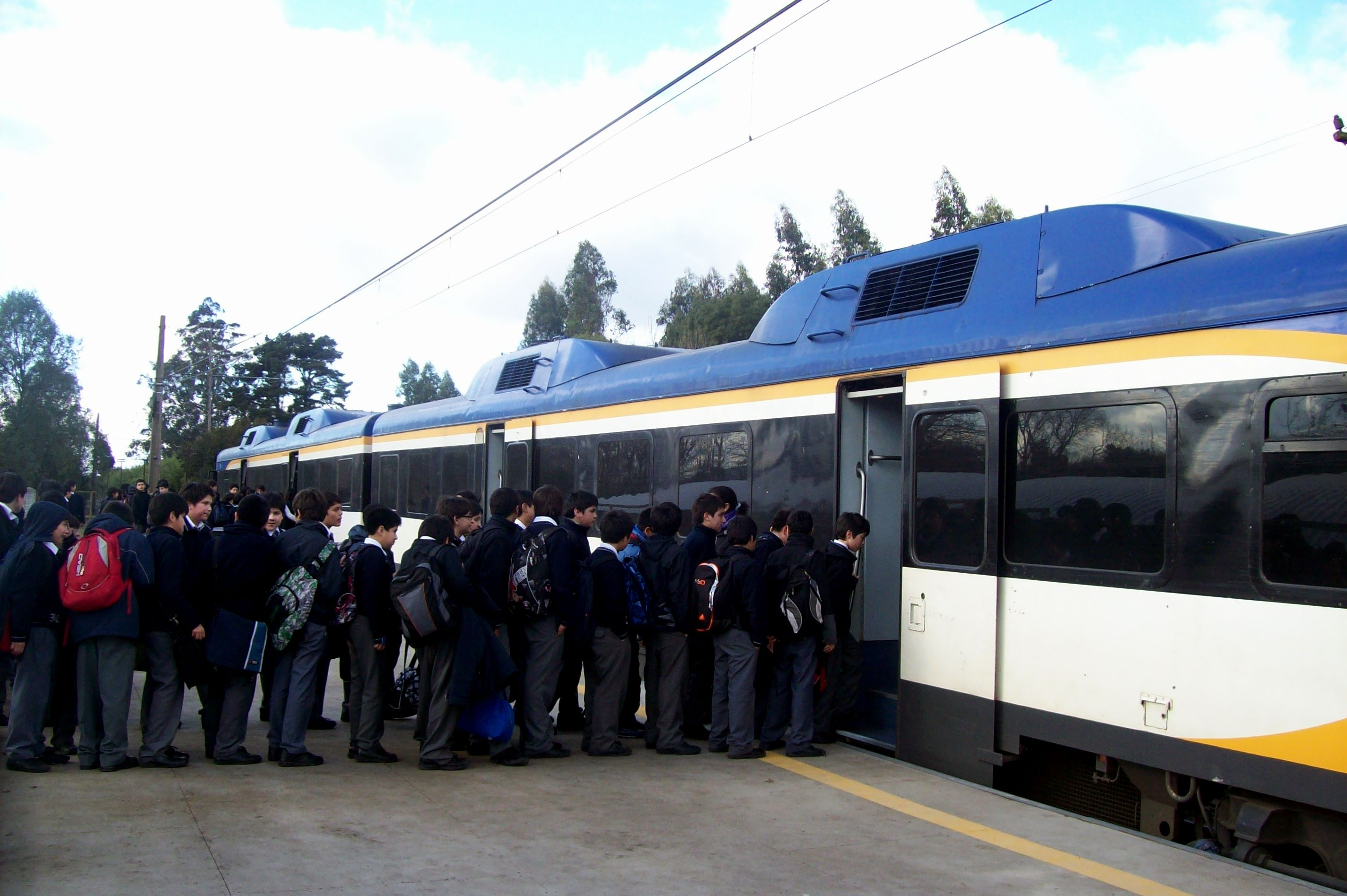 Group of students of Claret Institute approaching to a TLD railcar for going to Temuco.